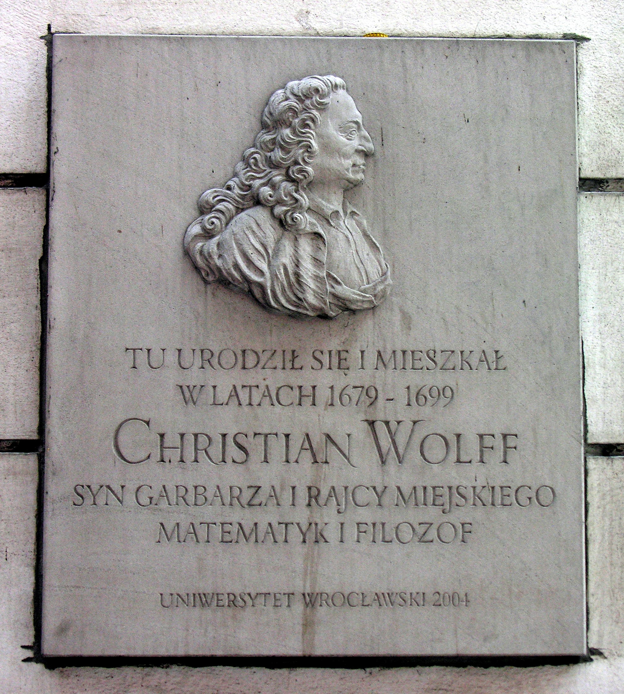 Plaque in honor of Christian Wolff in Wroclaw/Poland, ul. Garbary